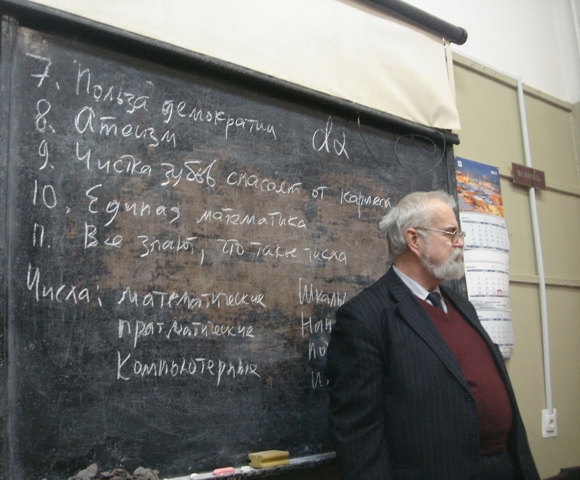 OrlovAI MGTU Baumana